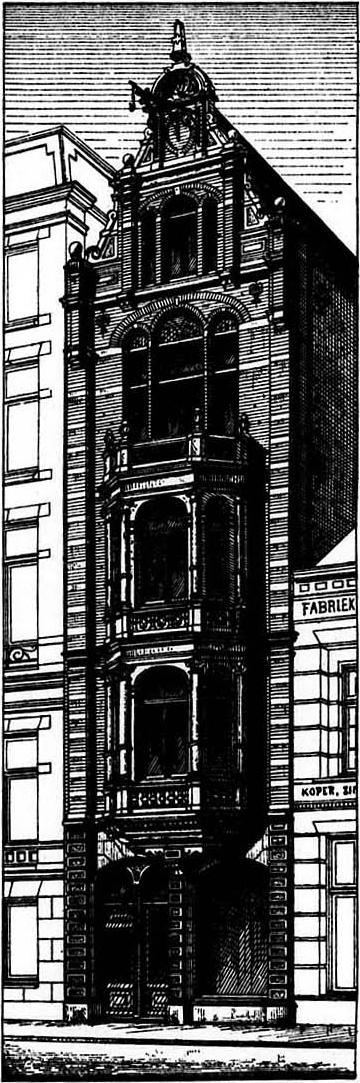 House, Stadhouderskade, Amsterdam. 1882 (construction).